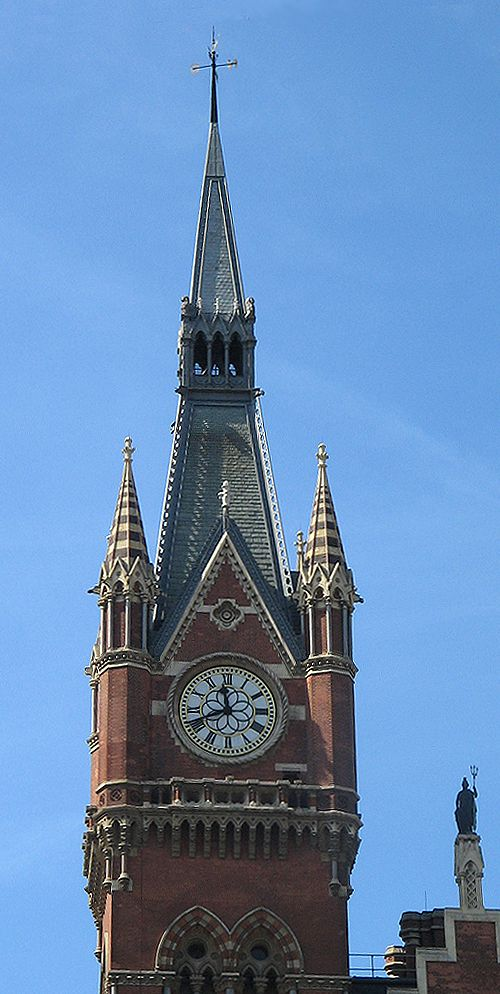 St Pancras clock tower in London. Photo by Will Fox, taken in August 2005. Clock made by Smith of Derby [1].